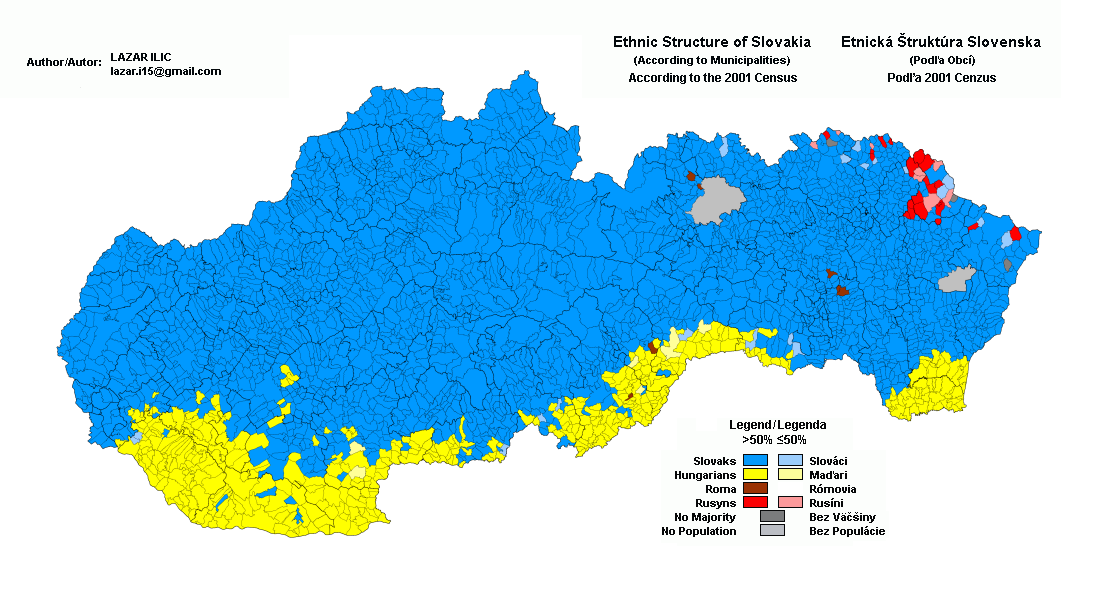 This is an ethnic map of Slovakia according to the 2001 population census.